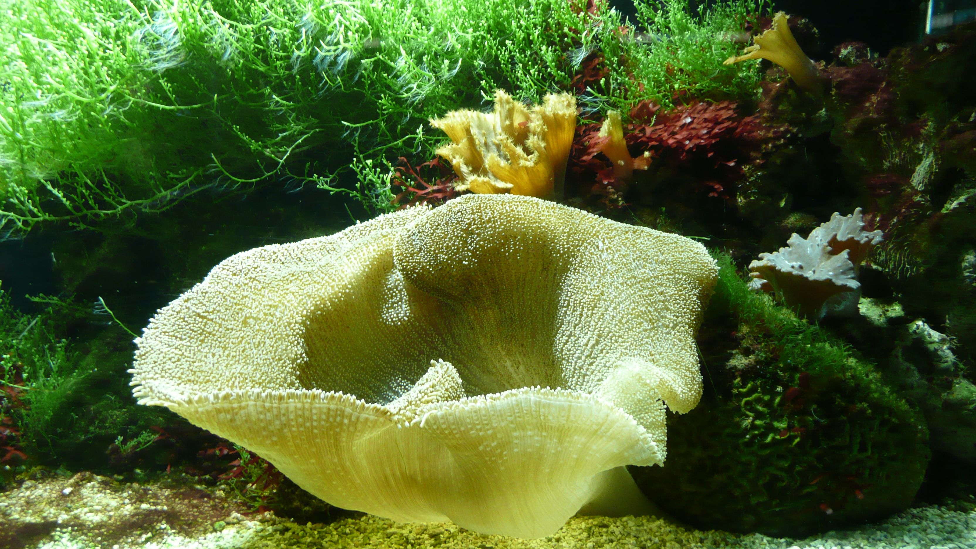 Stichodactyla haddoni / Carpet anemone, Viena / Teppichanemone im Haus des Meeres in Wien